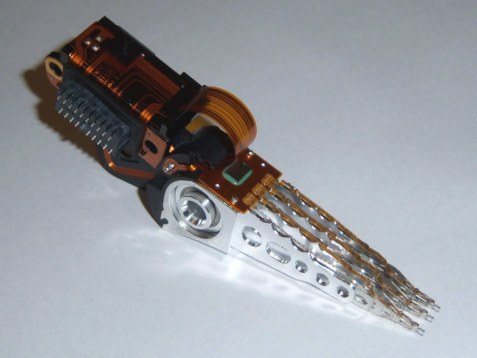 Head stack of a Western Digital hard disk (WD2500JS-00MHB0)